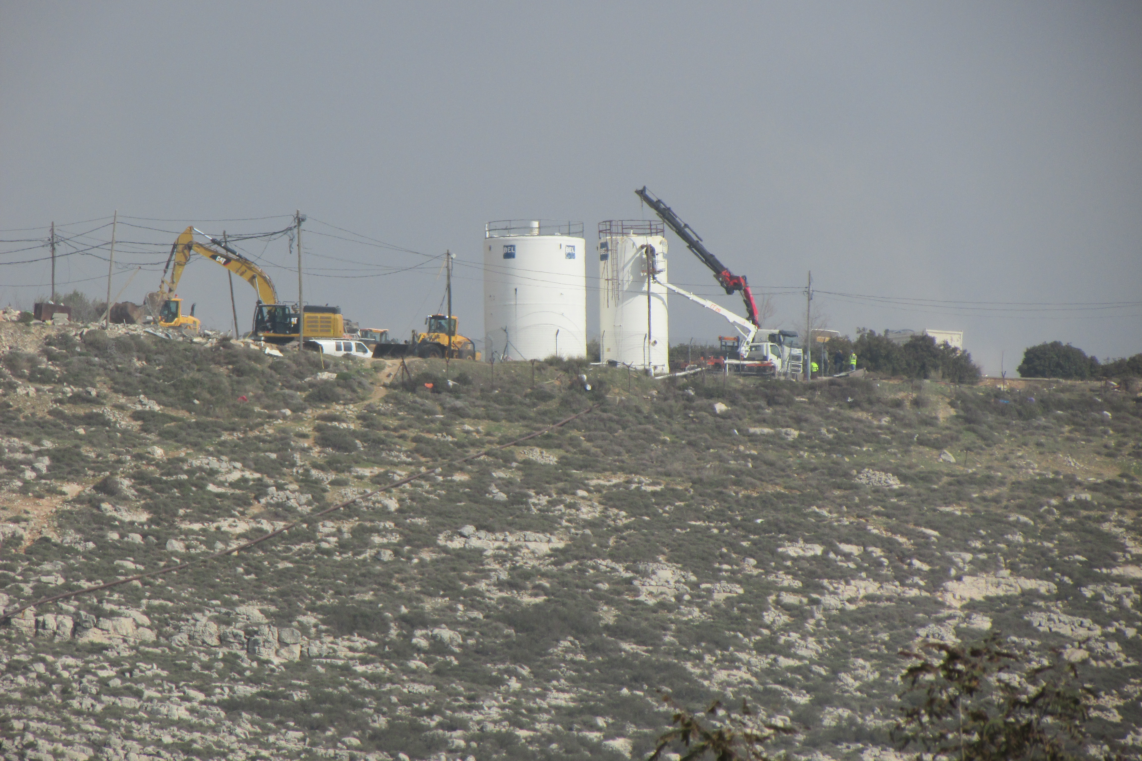 Evacuation of Amona.